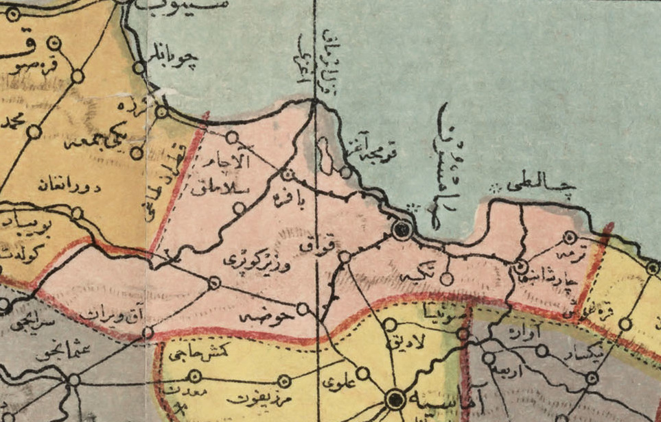 1927 Map of Samsun